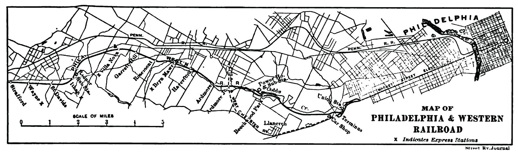 System map of the Philadelphia & Western Railroad as originally constructed in 1907.